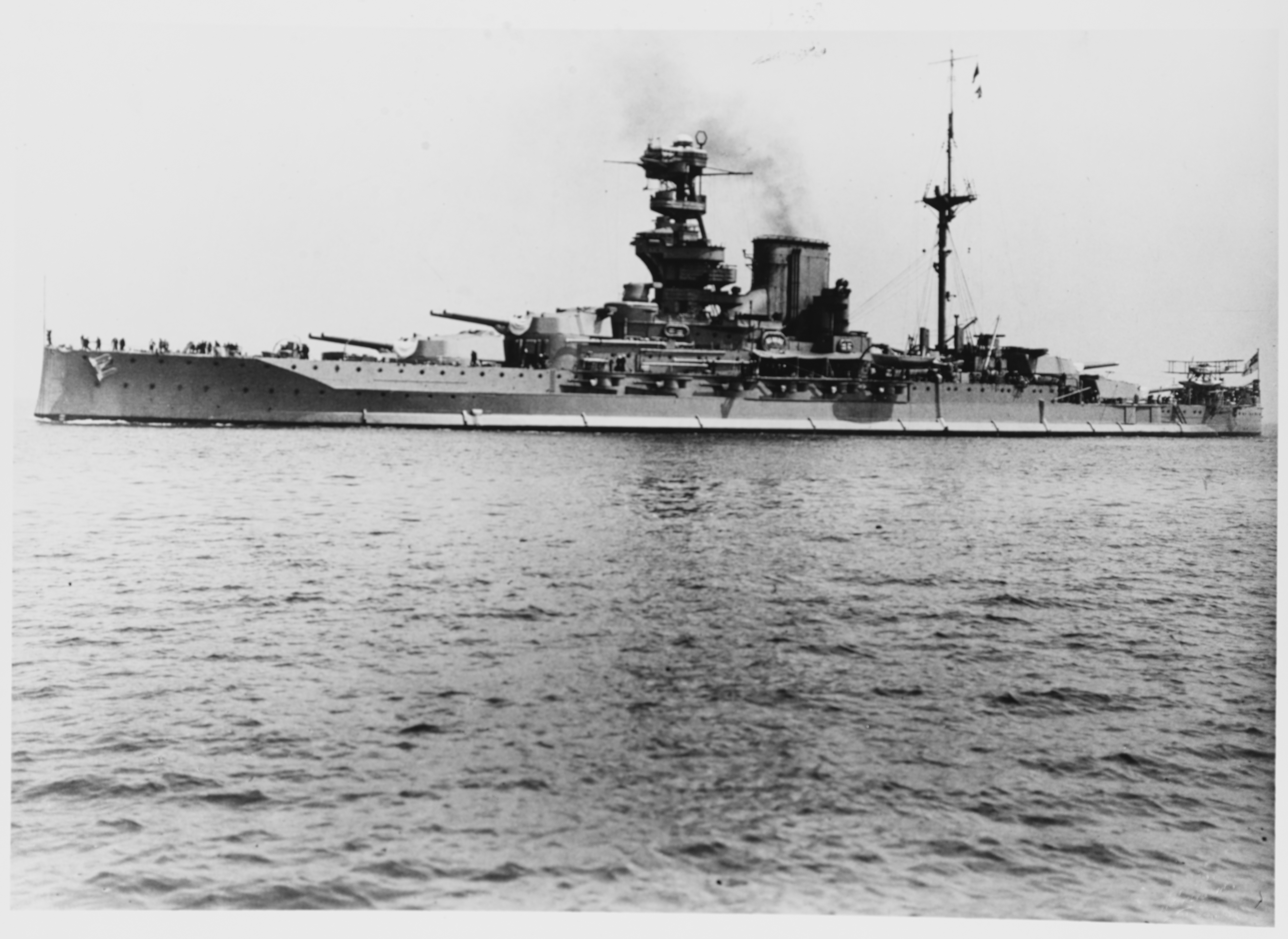 HMS Valiant (British battleship, 1916) Photographed following her 1929-30 refit. She is carrying a Fairey III-F floatplane on her fantail catapult. This catapult was only carried during 1930-33. U.S. Naval Historical Center Photograph.